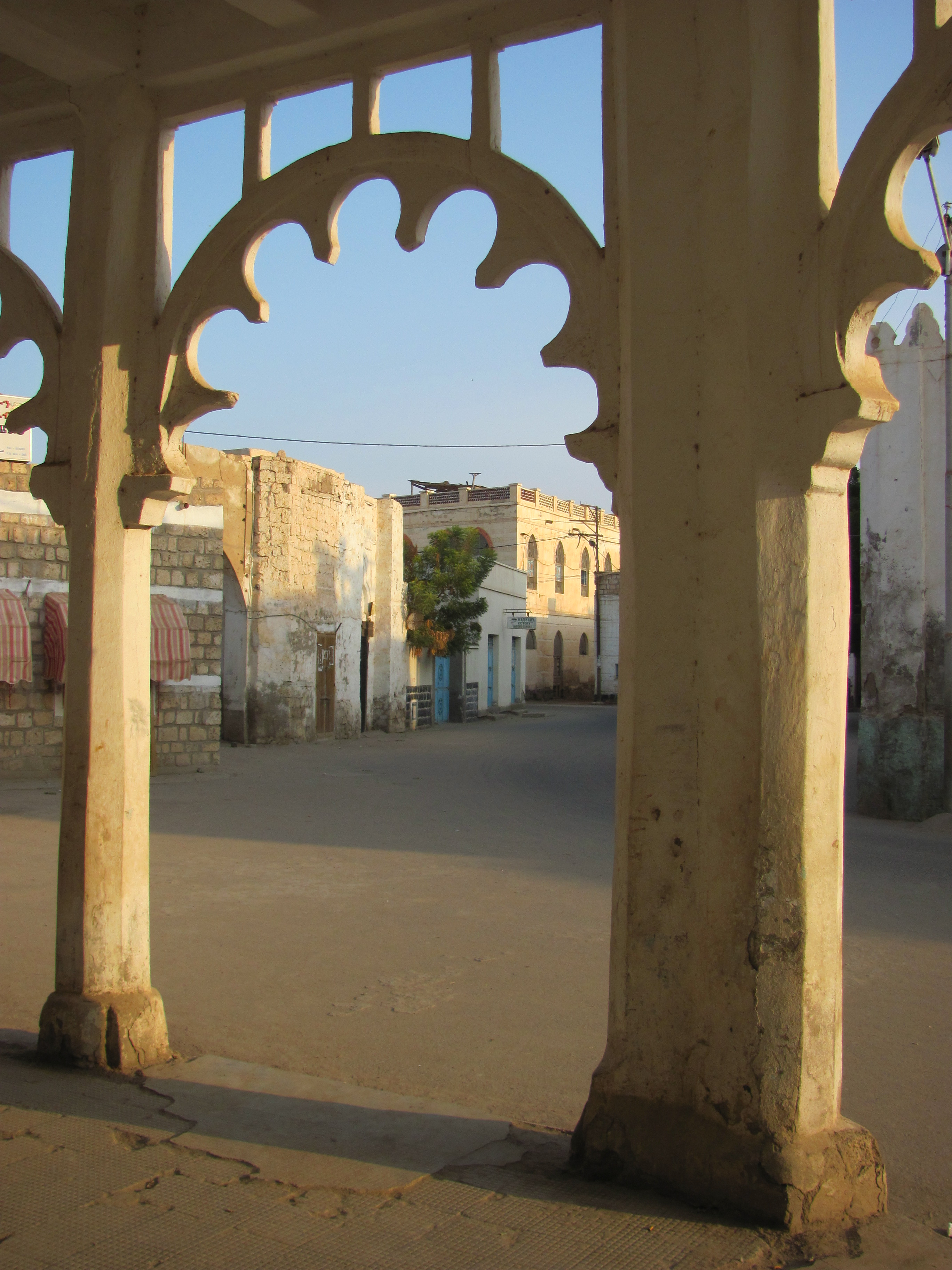 Historic center of Massawa, Eritrea